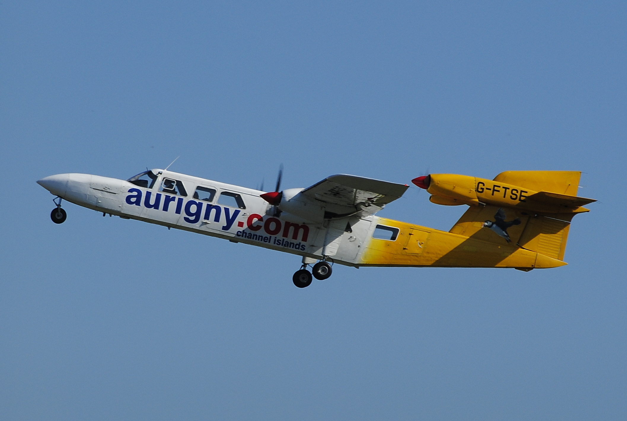 G-FTSE Trislander Aurigny Air Services